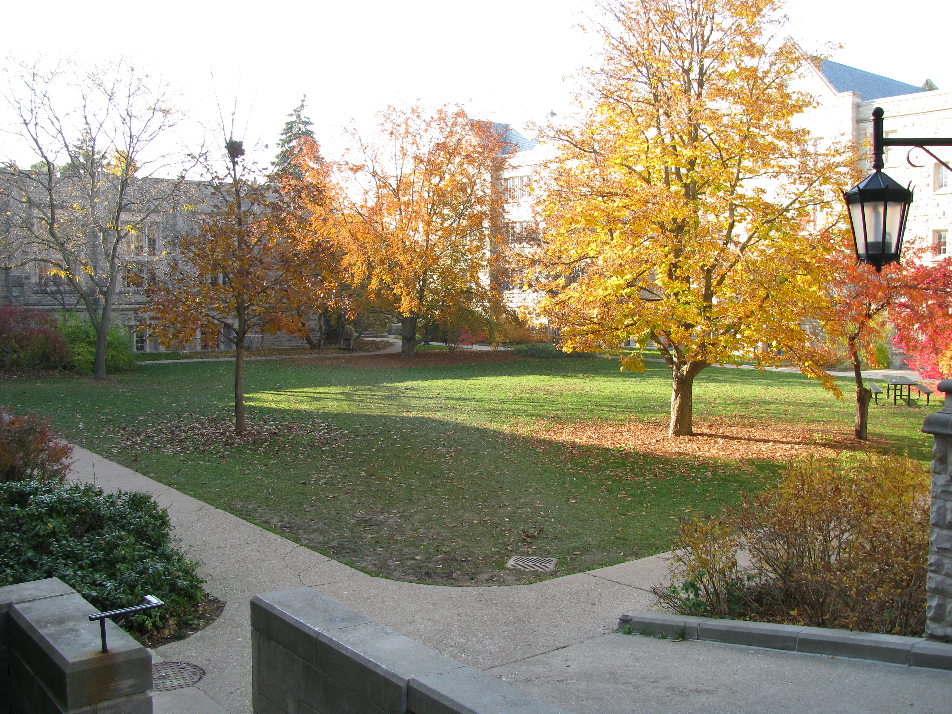 View into the Sydenham 'Quad' within the Medway Sydenham Hall residence at The University of Western Ontario in London, Ontario, Canada